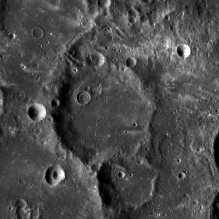 LROC . Ginzel lies east of Mare Marginis; some swirls are visible on the image.